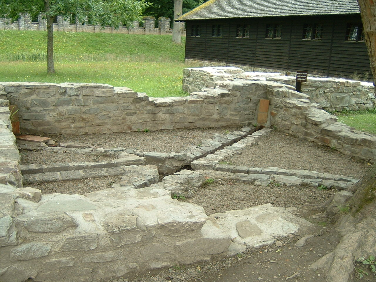 Saalburg, duct heating, underfloor heating of the Romans